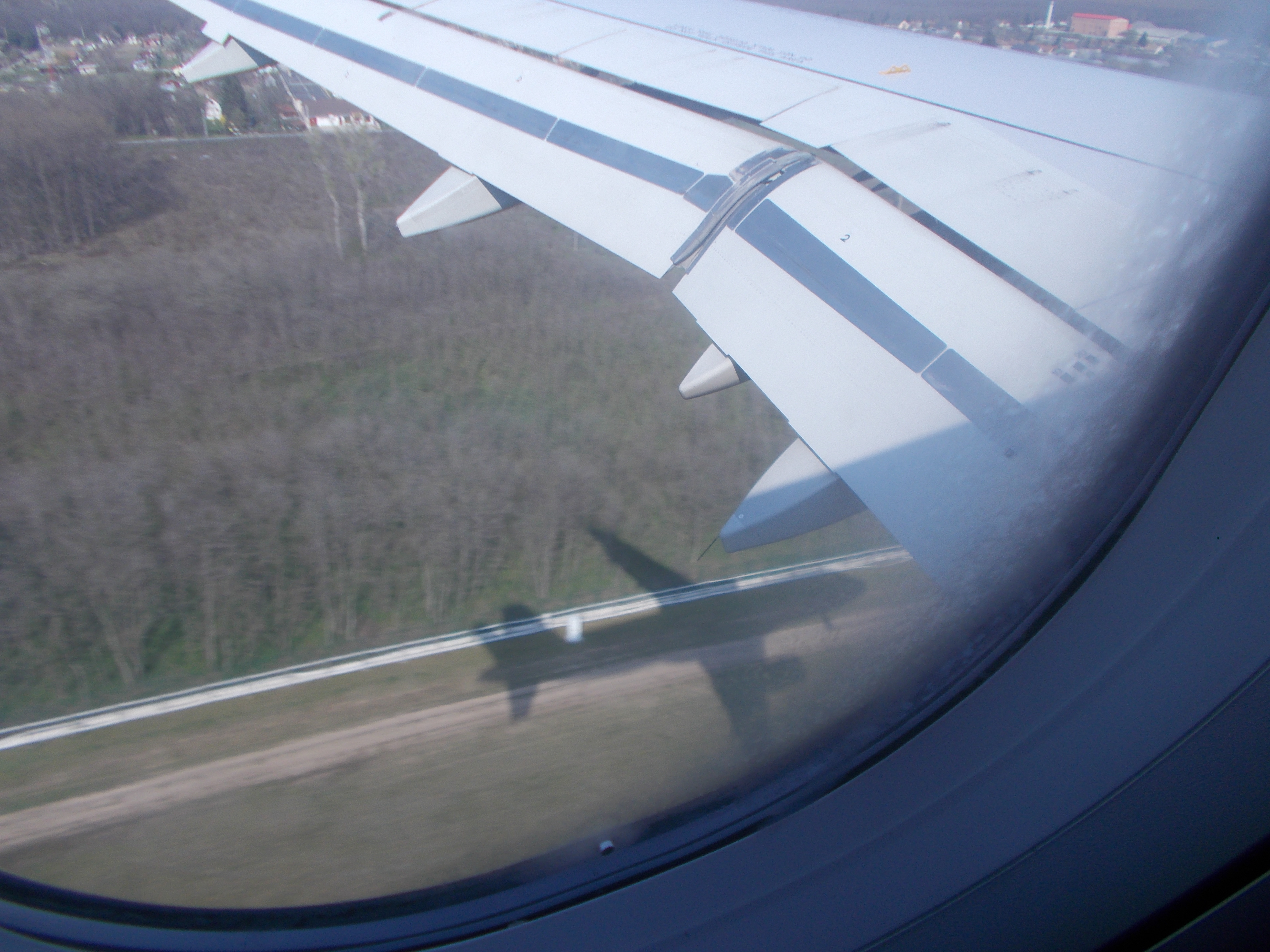 airplane shadow